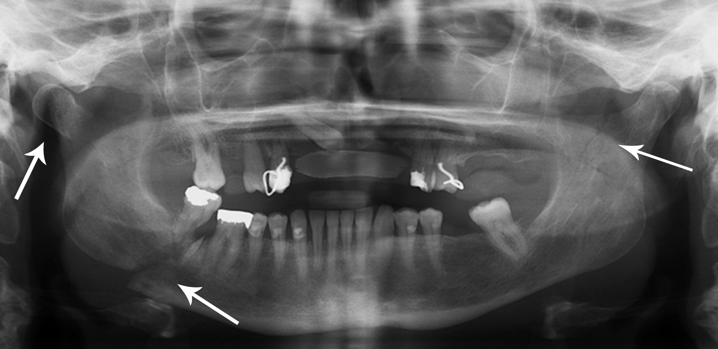 multiple mandible fractures of a patient seen by an oral surgeon in the right condyle, right body and left coronoid process